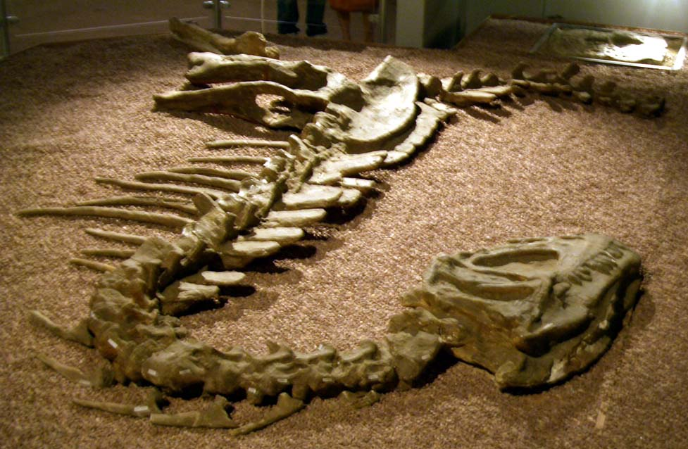 Yangchuanosaurus shangyouensis skeleton displayed in Hong Kong Science Museum